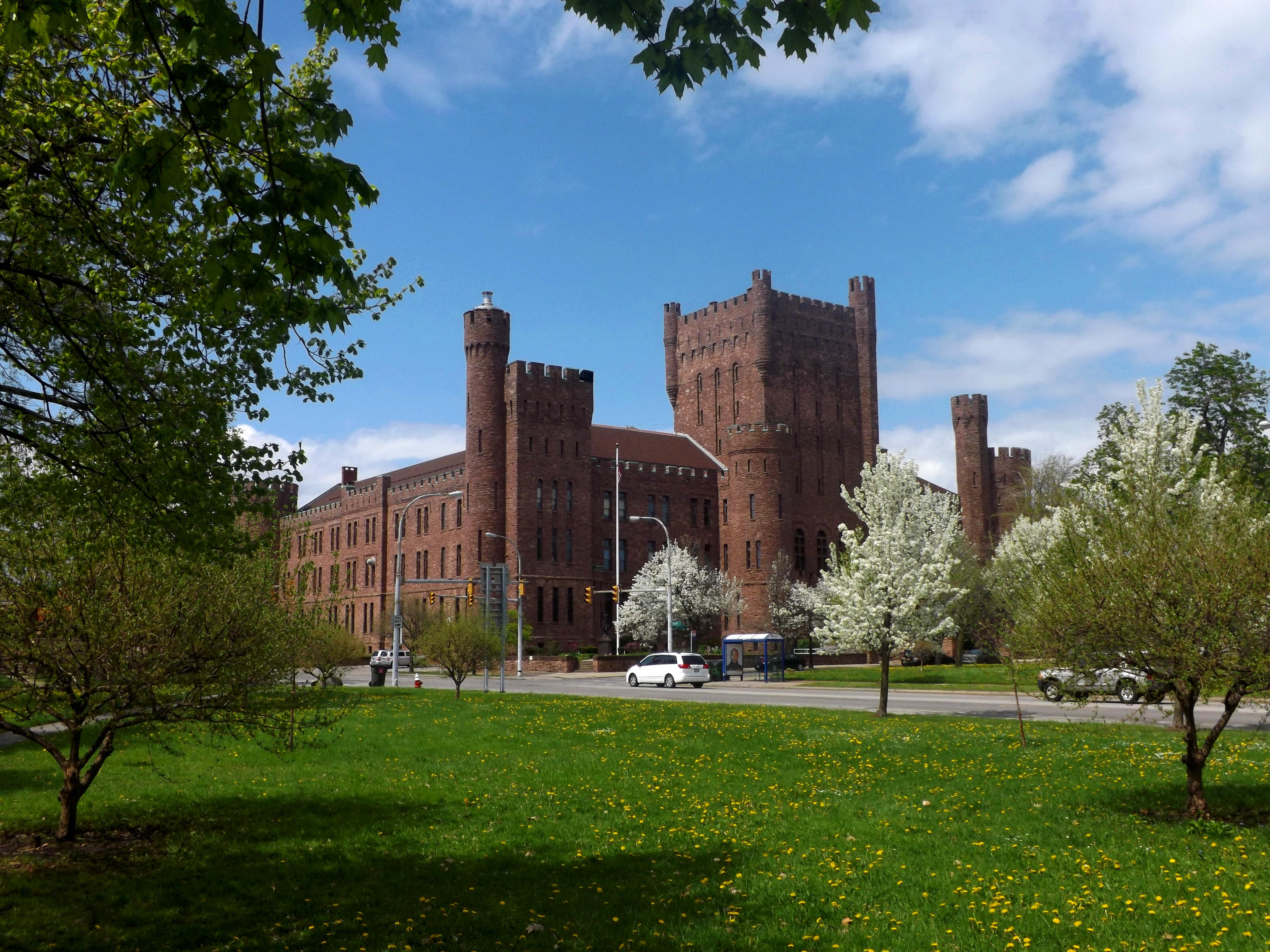 The Connecticut Street Armory stands sentinel over the West Side neighborhood of Prospect Hill, in Buffalo, New York. In the foreground is the Olmsted-designed Prospect Park.